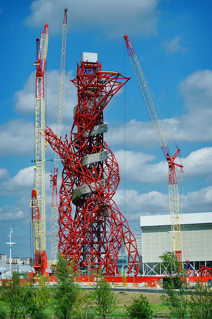 Work-in-progress September 2011, with viewing platform level taking shape. Sculptor: Anish Kapoor, Structural Designer: Cecil Balmond, Architecture: Ushida Findlay Architects (UFA), Design and Engineering: Ove Arup. The controversial red tower will be 115m tall and completion is due in spring 2012. Project cost about 20million GBP. Olympic Park, London Borough of Newham. Orbit Tower Set... (CC-by-SA which means anyone can freely use any size of this image anywhere, provided accompanied by the credit — Image: George Rex.)